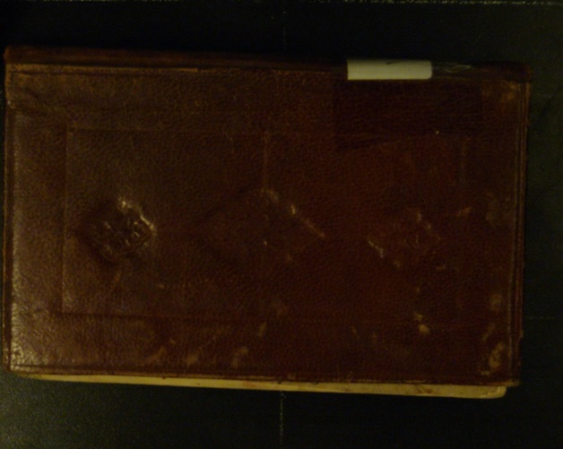 اخلاق جلالی